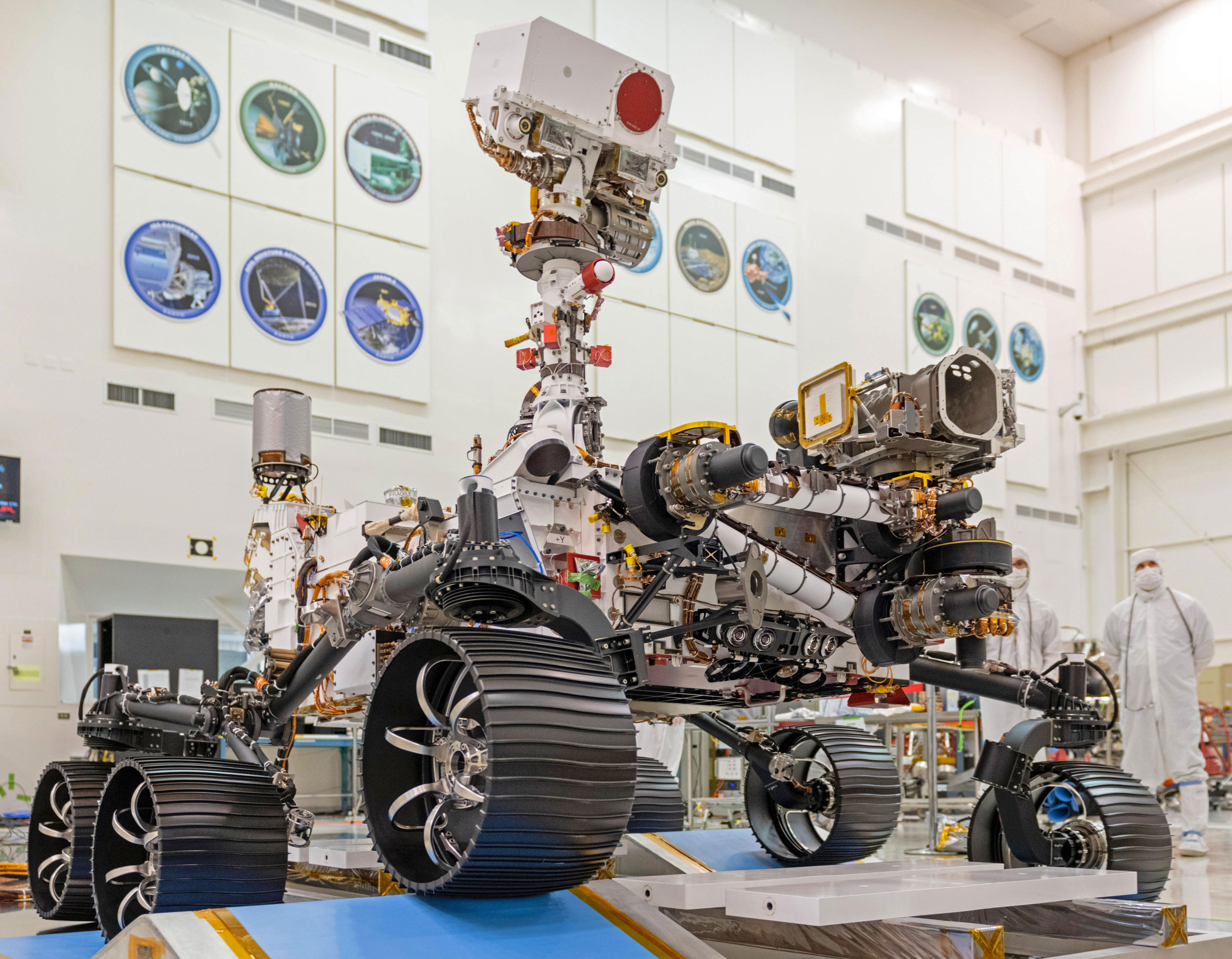 In a clean room at NASA's Jet Propulsion Laboratory in Pasadena, California, engineers observed the first driving test for NASA's Mars 2020 rover on Dec. 17, 2019. Scheduled to launch as early as July 2020, the Mars 2020 mission will search for signs of past microbial life, characterize Mars' climate and geology, collect samples for future return to Earth, and pave the way for human exploration of the Red Planet. It is scheduled to land in an area of Mars known as Jezero Crater on Feb. 18, 2021. JPL is building and will manage operations of the Mars 2020 rover for NASA. NASA's Launch Services Program, based at the agency's Kennedy Space Center in Florida, is responsible for launch management. For more information about the mission, go to